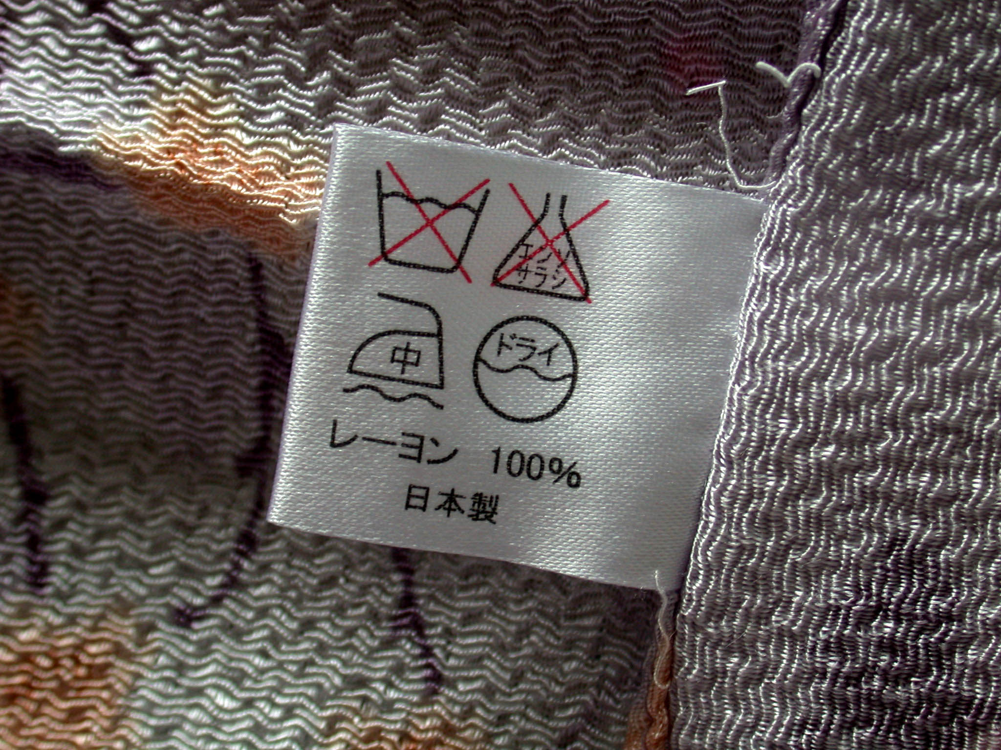 A clothing label showing laundry symbols and Japanese text for washing instructions.